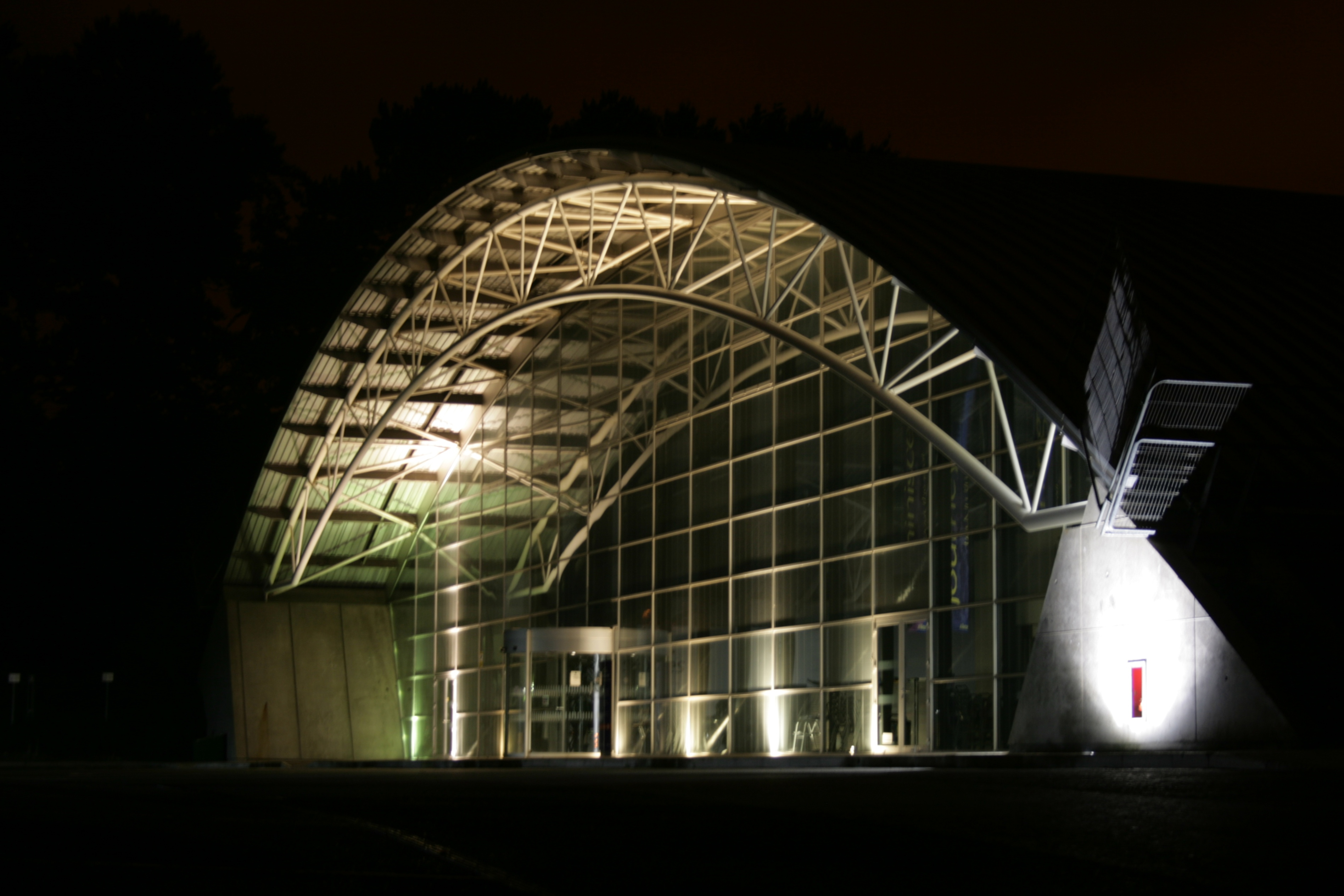 A shot of the Milestones Museum in Basingstoke at night taken from the carpark.